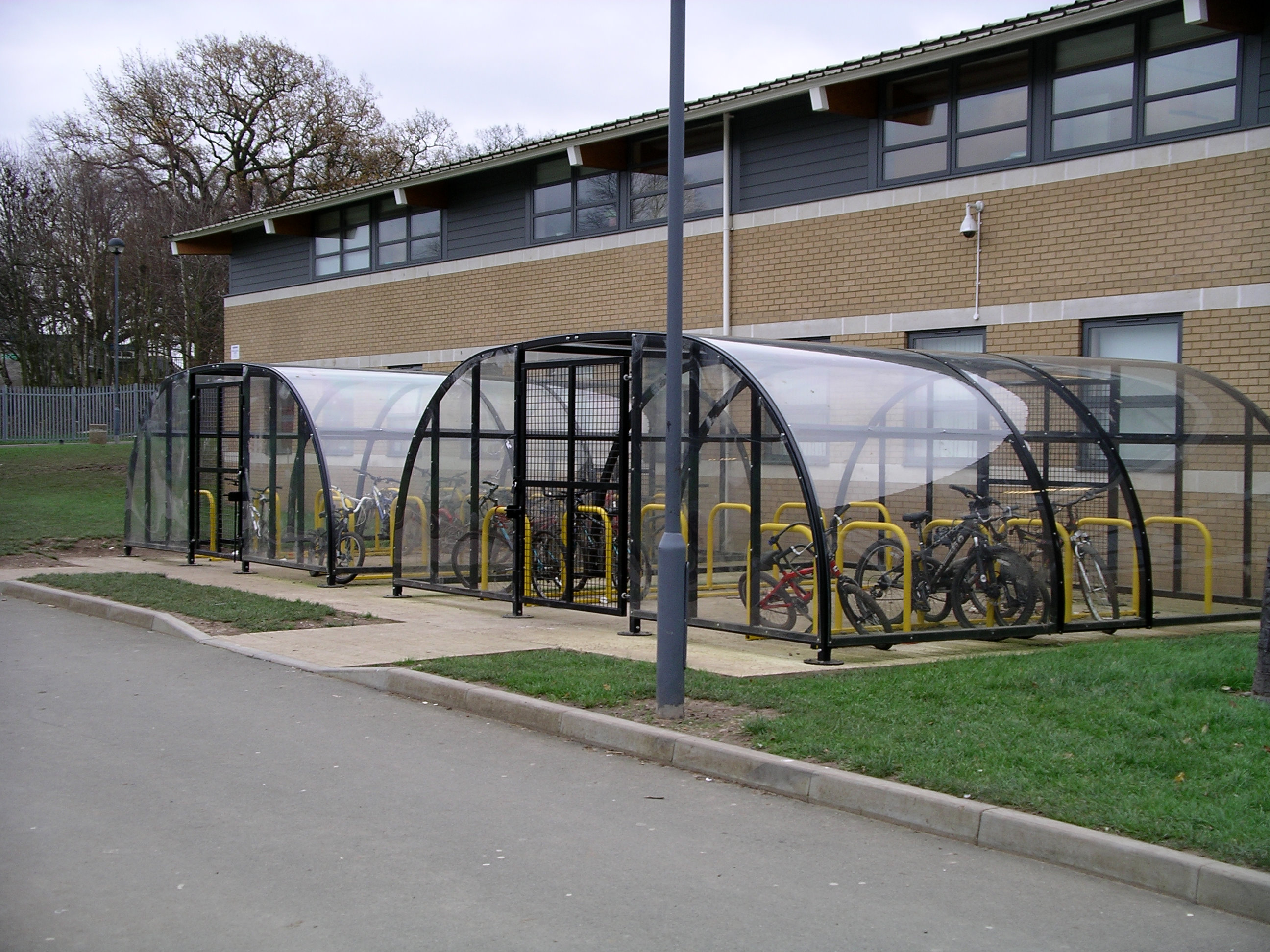 Photograph taken on 15 December 2006 of bike sheds at a school in the West Midlands of England.